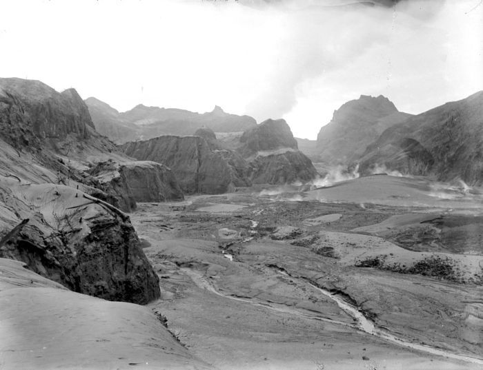 The effects of lahars (mudflow) that occurred during the 1919 eruption of Mount Kelud. Following the Kelud eruption of 1901, another eruption occurred on May 20, 1919. Over 5,000 people were killed, and more than 9,000 homes destroyed. Over 1,500 cattle died. The photo shows the effects of a destructive lahars. Vegetation recovers relatively quickly from the effects of a lahar, which means that the displaced people often go back to the old location. This could go well for decades, but the likelihood that such an event will occur again is always present. (P. Boomgaard, 2001).